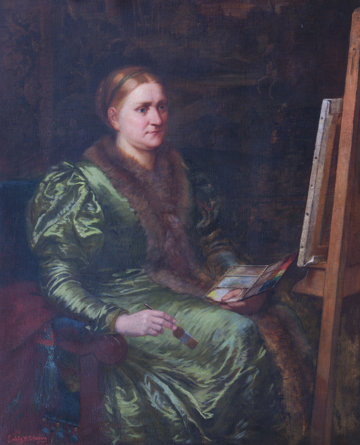 Osborn, Emily Mary; Barbara Leigh Smith Bodichon; Girton College, University of Cambridge